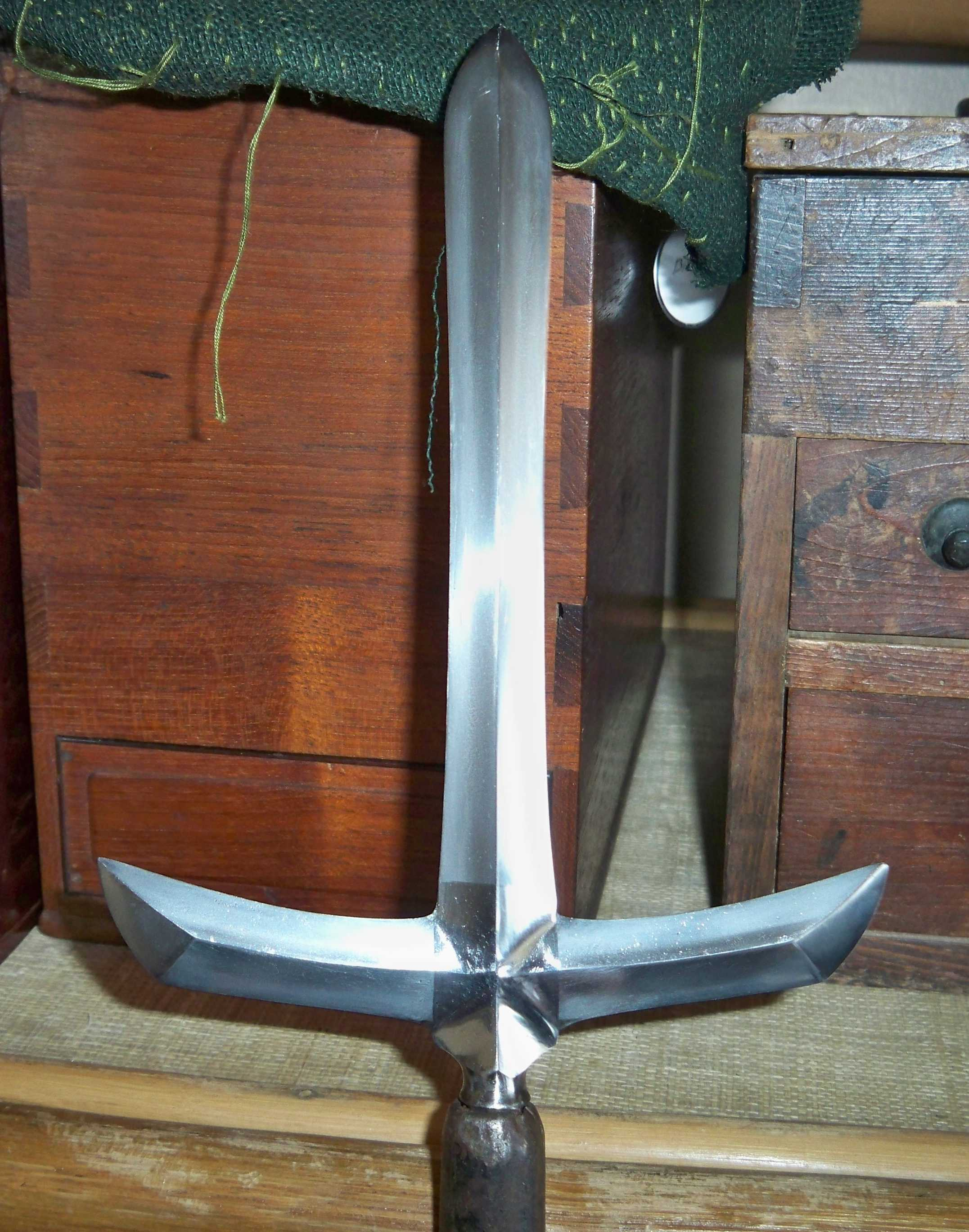 Antique Japanese (samurai) jumonji yari.